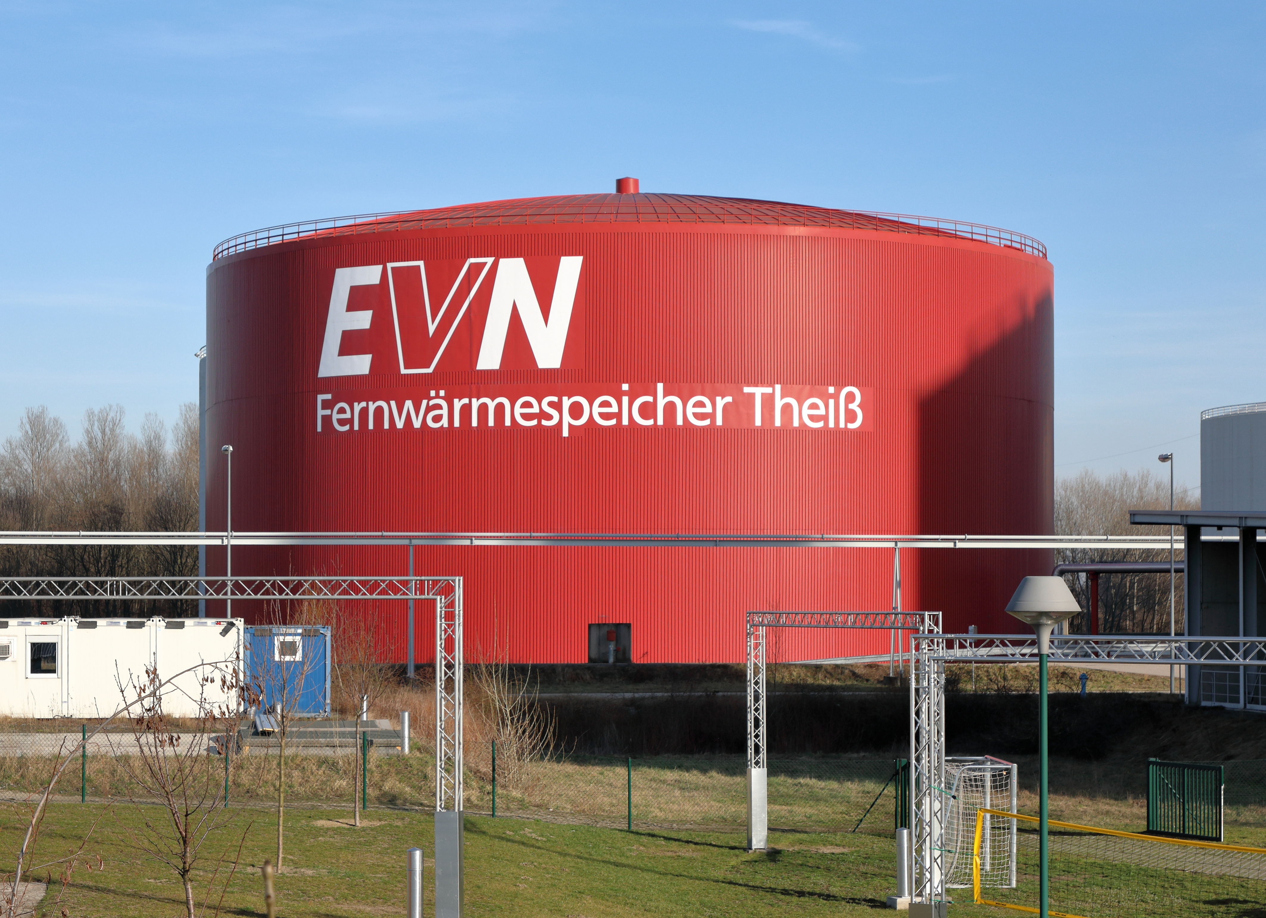 Districht heating accumulation tower of Theiss, near Krems an der Donau, Lower Austria with 50000 cubic meters volume.